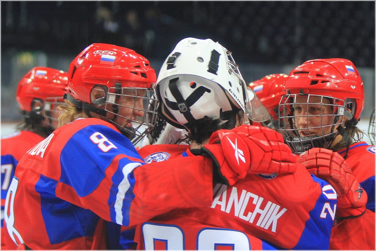 IIHF World Women Championship 2011. Preliminary Round Game Group A. USA - Russia 13-1.